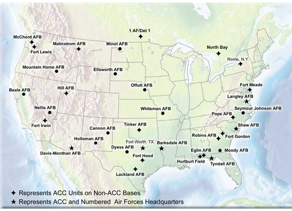 source